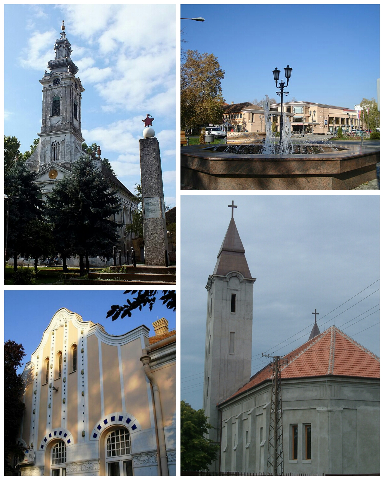 Vrbas- photomontage (Fountain in the center of Vrbas, Villa ,,Tabori" in Vrbas, Building of volunteer firefighting company, Methodist-evangelical church, City Museum of Vrbas, Monument to the fallen fighters of the People's Liberation War and victims of fascist terror, Catholic church in Vrbas)